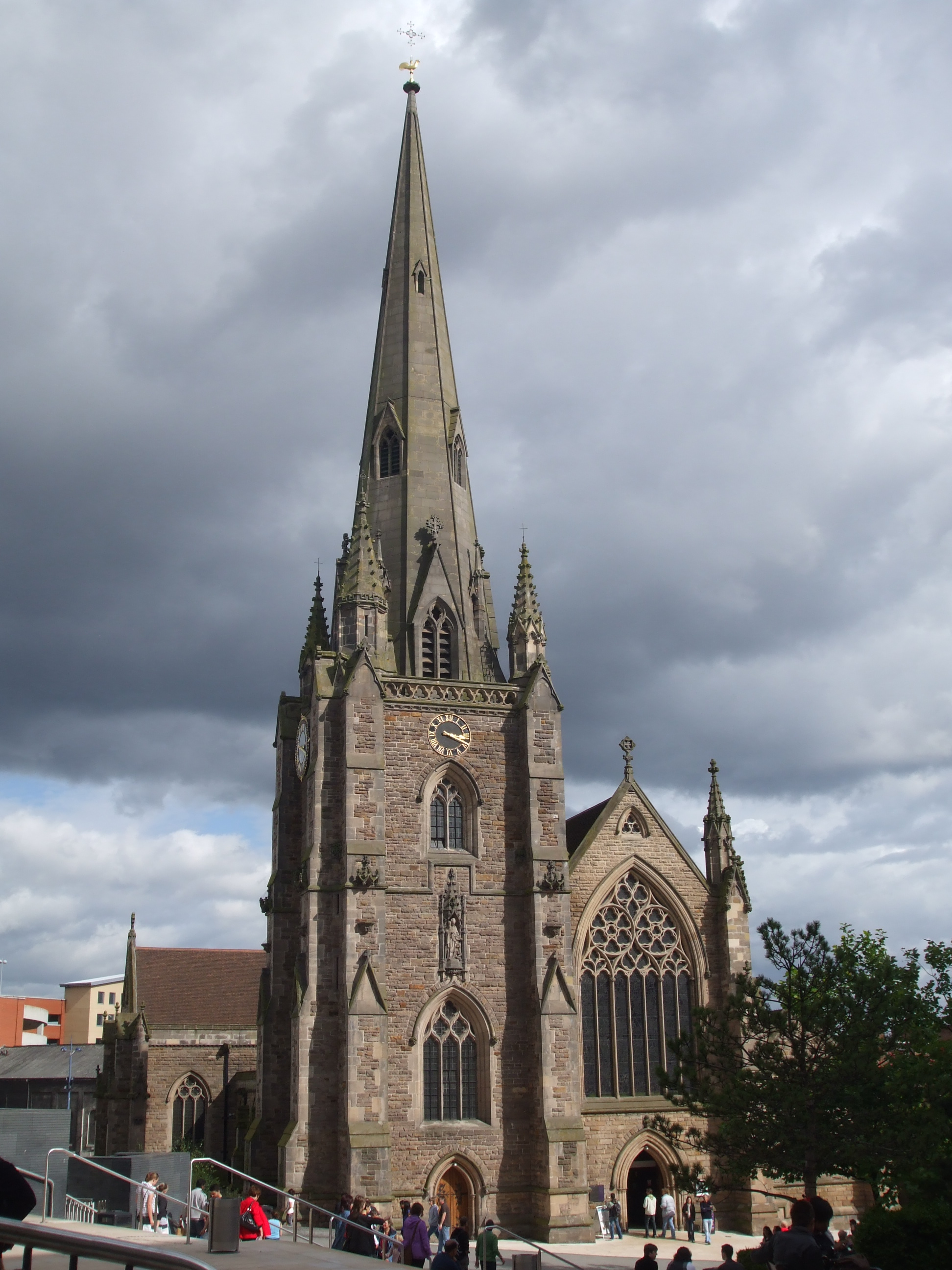 St Martin's parish church, Birmingham, West Midlands